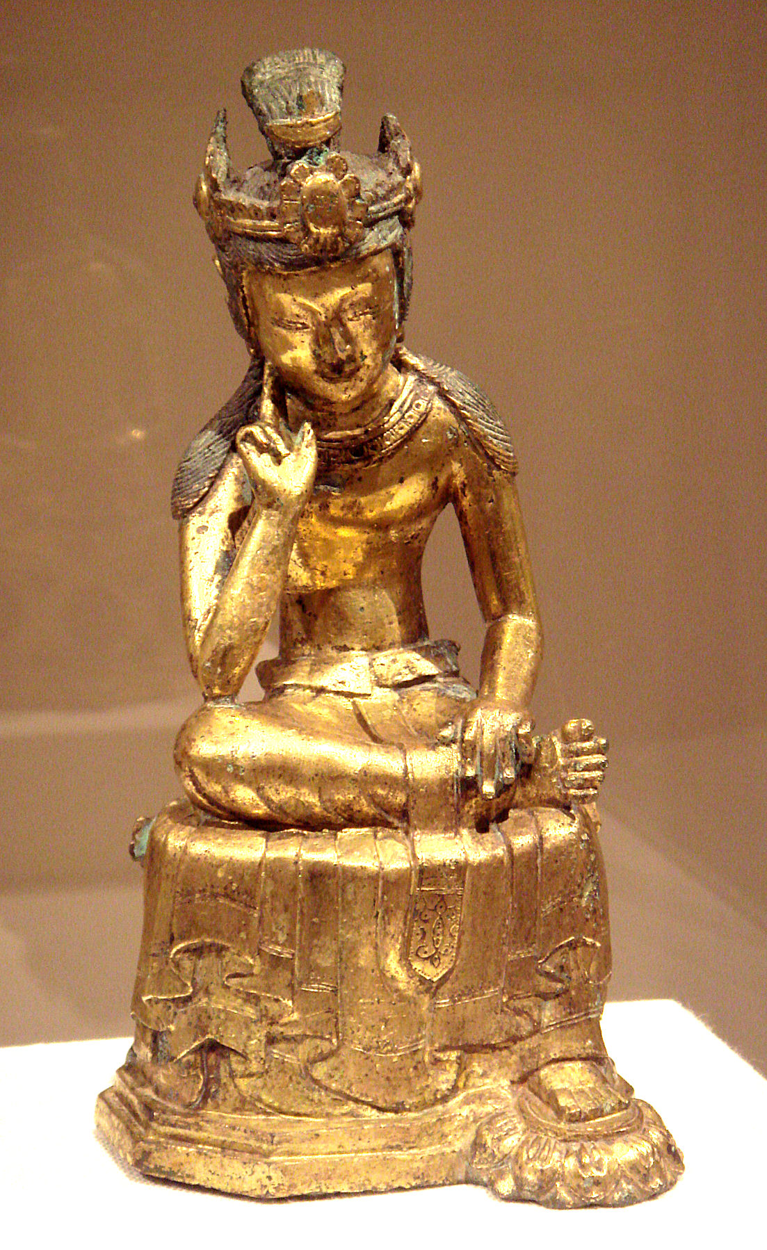 Pensive_BodhisattavaThree_Kingdoms_7th_century_MET